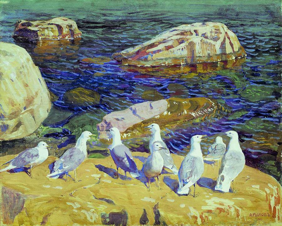 Seagulls (painting by Arkady Rylov, 1910)